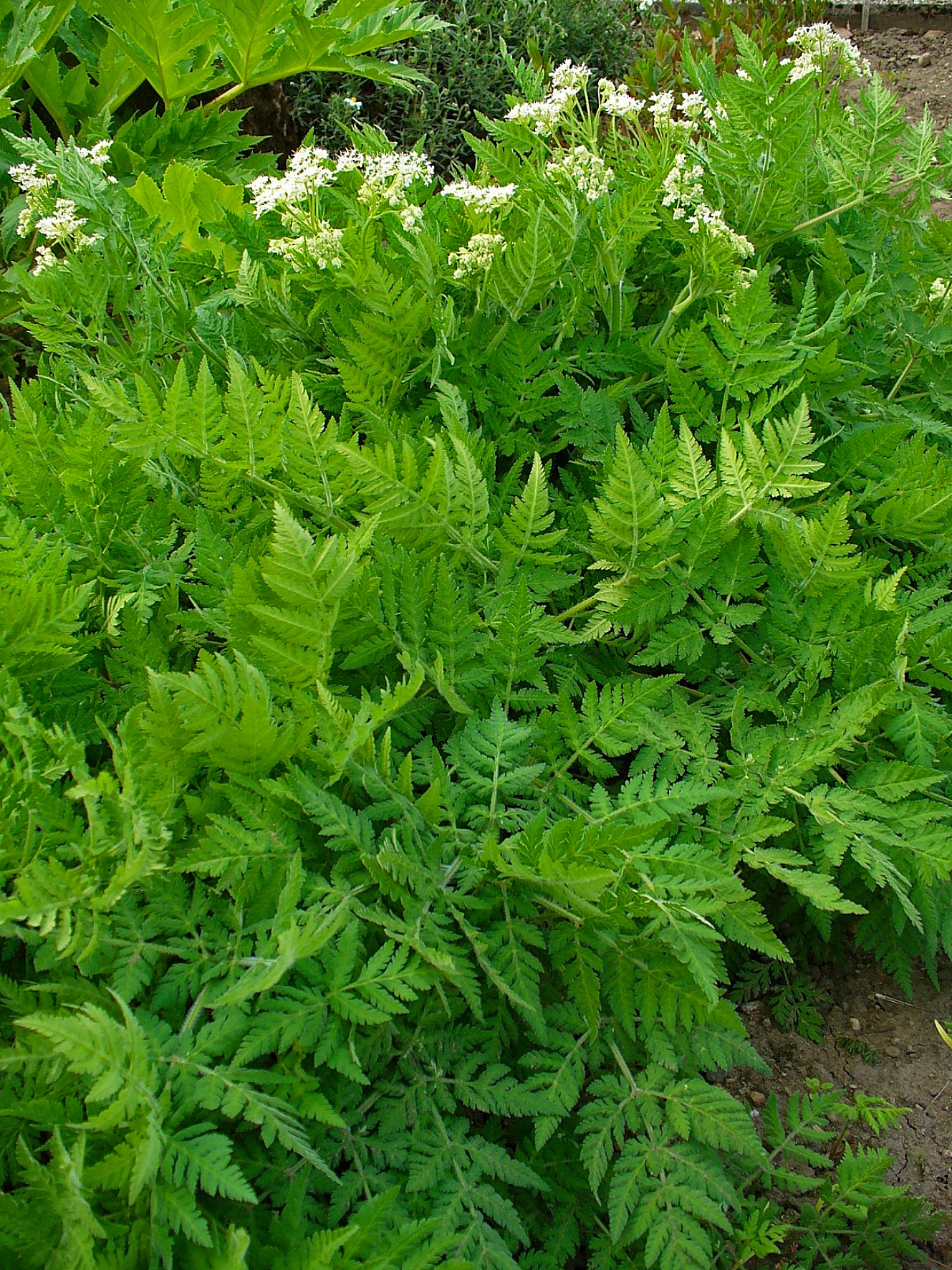 Myrrhis odorata, Apiaceae, Sweet Cicely, habitus. Botanical Garden KIT, Karlsruhe, Germany.